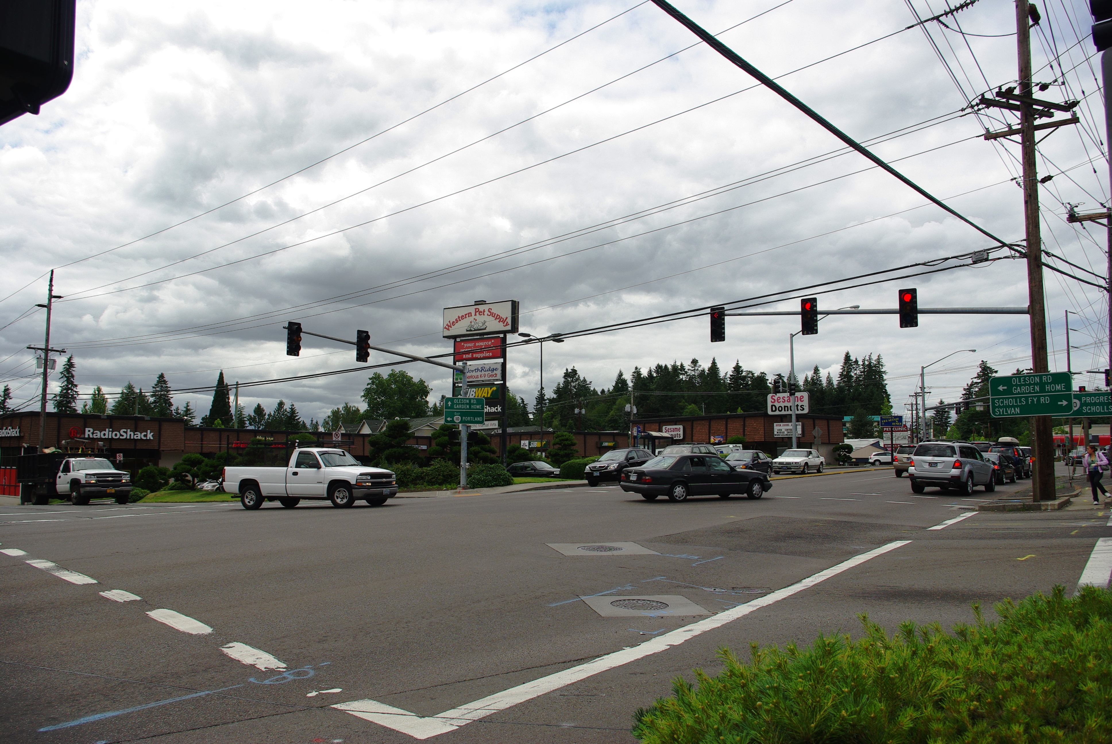 Raleigh Hills, Oregon, neighborhood near Portland, Oregon. Oregon Route 10 (Beaverton-Hillsdale Highway) runs from top to bottom; Oregon Route 210 (Scholls Ferry Road) is only visible in the distance underneath the far right red light. Oleson Road is on the left and ends at Scholls Ferry Road off-frame.